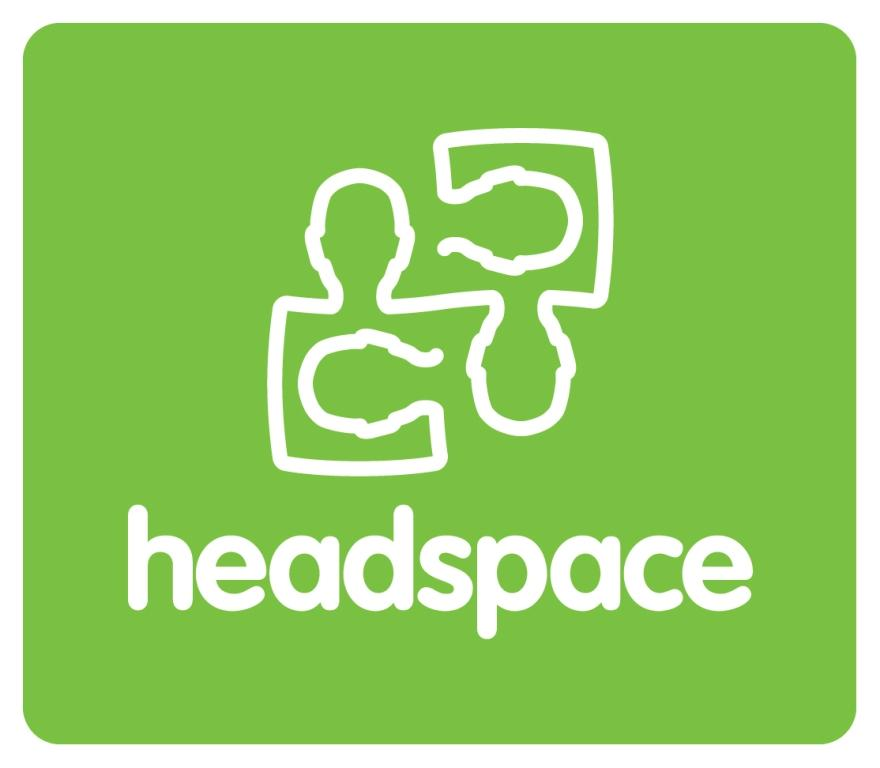 headspace organisation logo